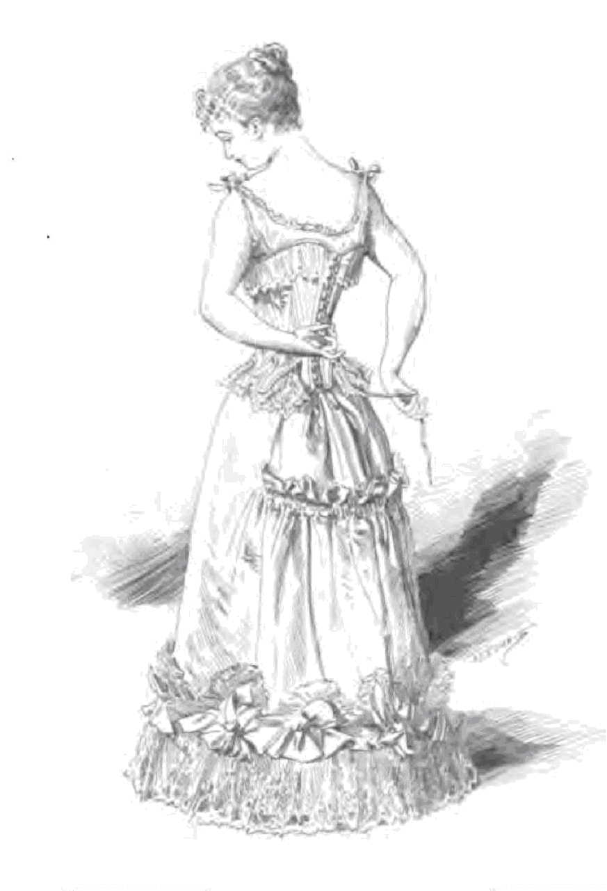 Backlaced corset circa 1893